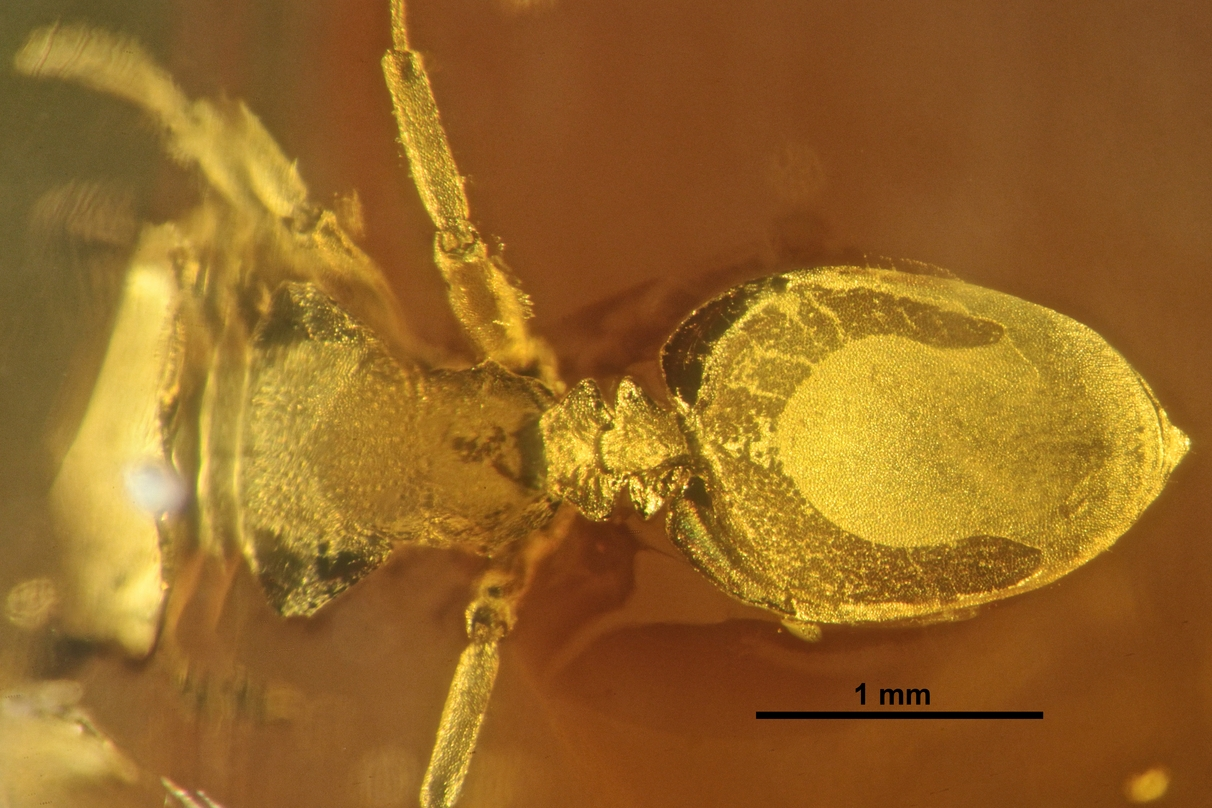 Dorsal view of the Cephalotes hispaniolicus holotype worker. Dominican amber, Burdigalian; Dominican Republic, Hispaniola Staatliches Museum fur Naturkunde, specimen SMNSDO4163